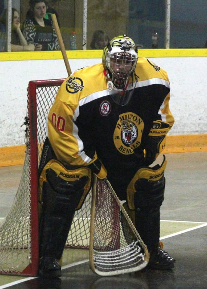 These images of Ontario Junior B Lacrosse Action action during the 2015 season are taken by Devan Mighton.